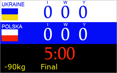 judo scoreboard